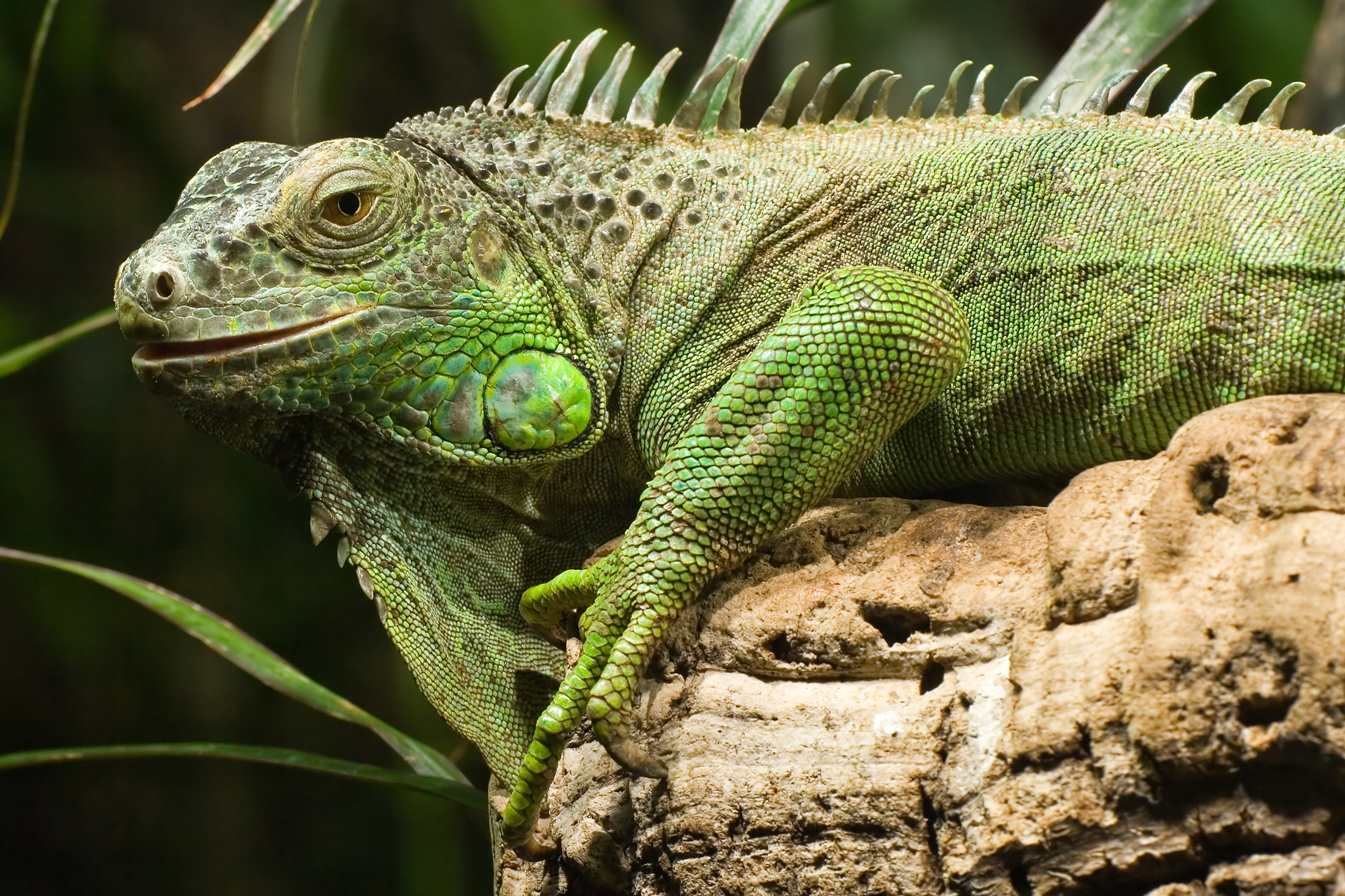 Green iguana, picture taken in the "Haus des Meeres" / Austria